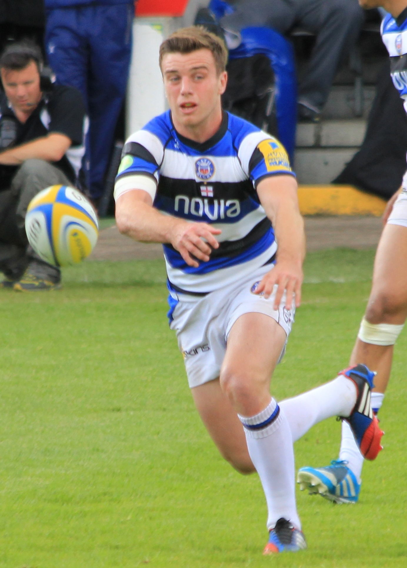 England international rugby union footballer George Ford playing for Bath Rugby.